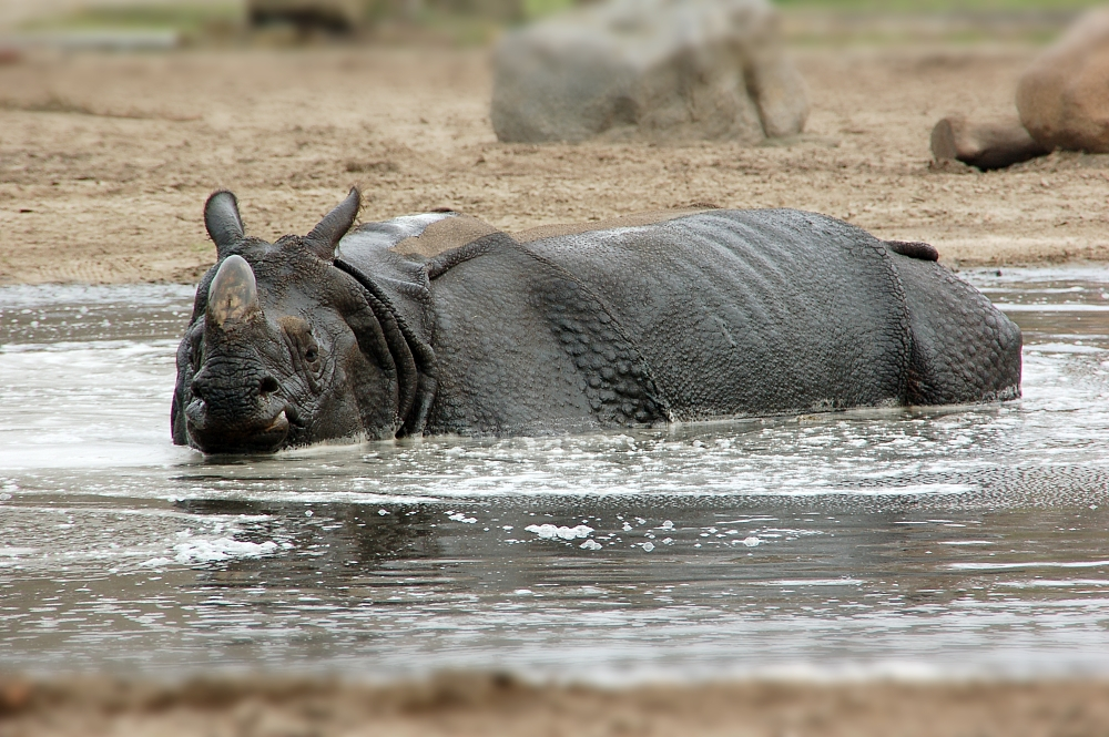 Rhinoceros unicornis, Zoological Garden Berlin, Germany